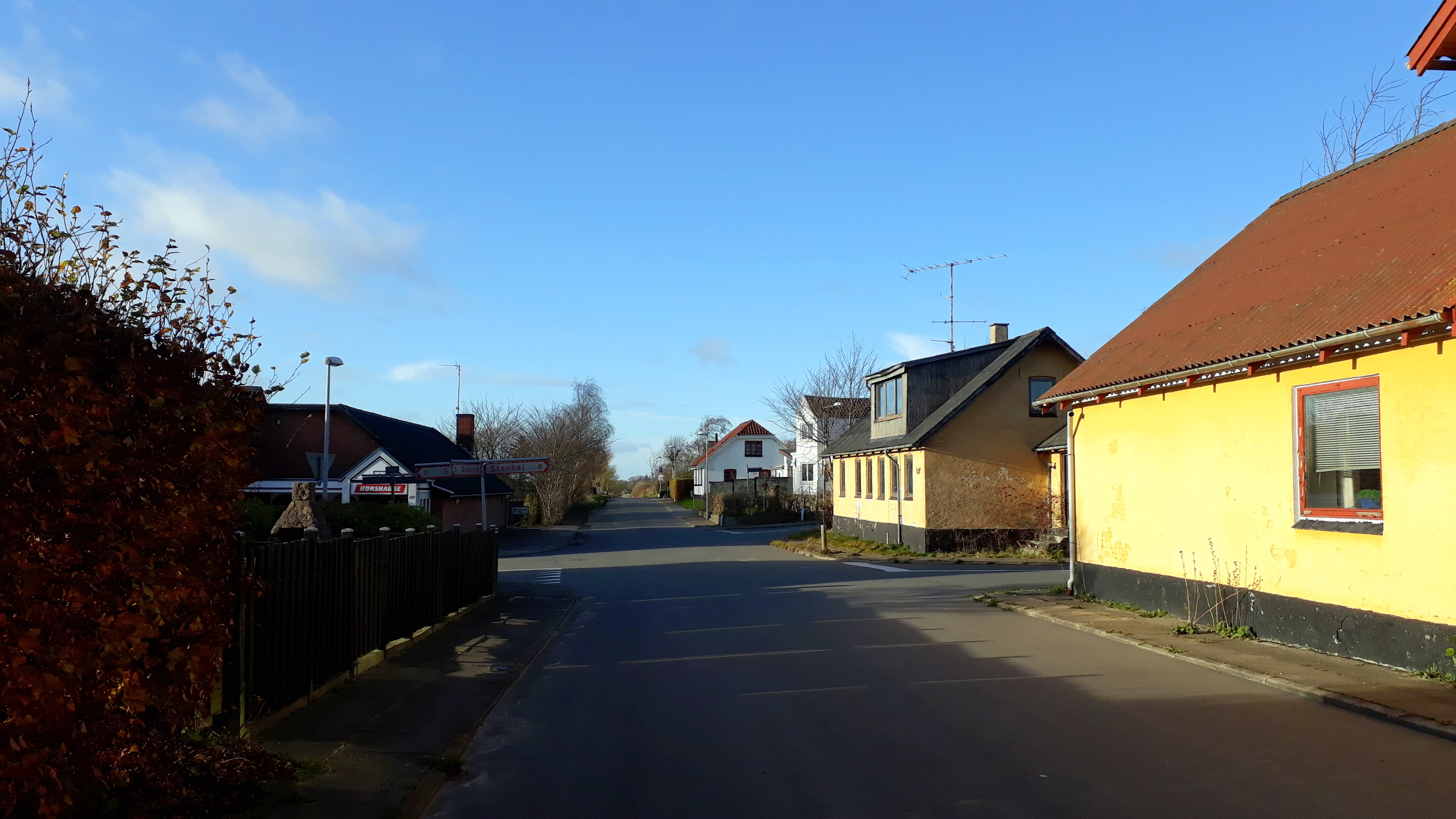 Morild, a small town in Northern Denmark